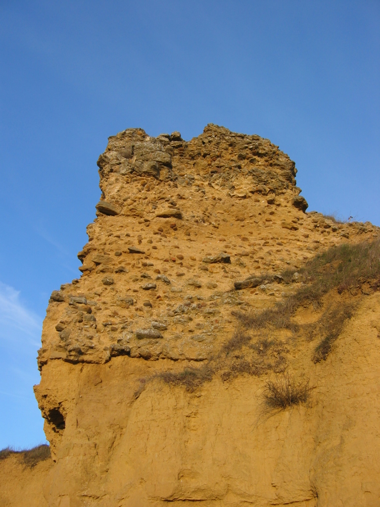 Castle of Castrillo de Villavega (Palencia, Castile and León).